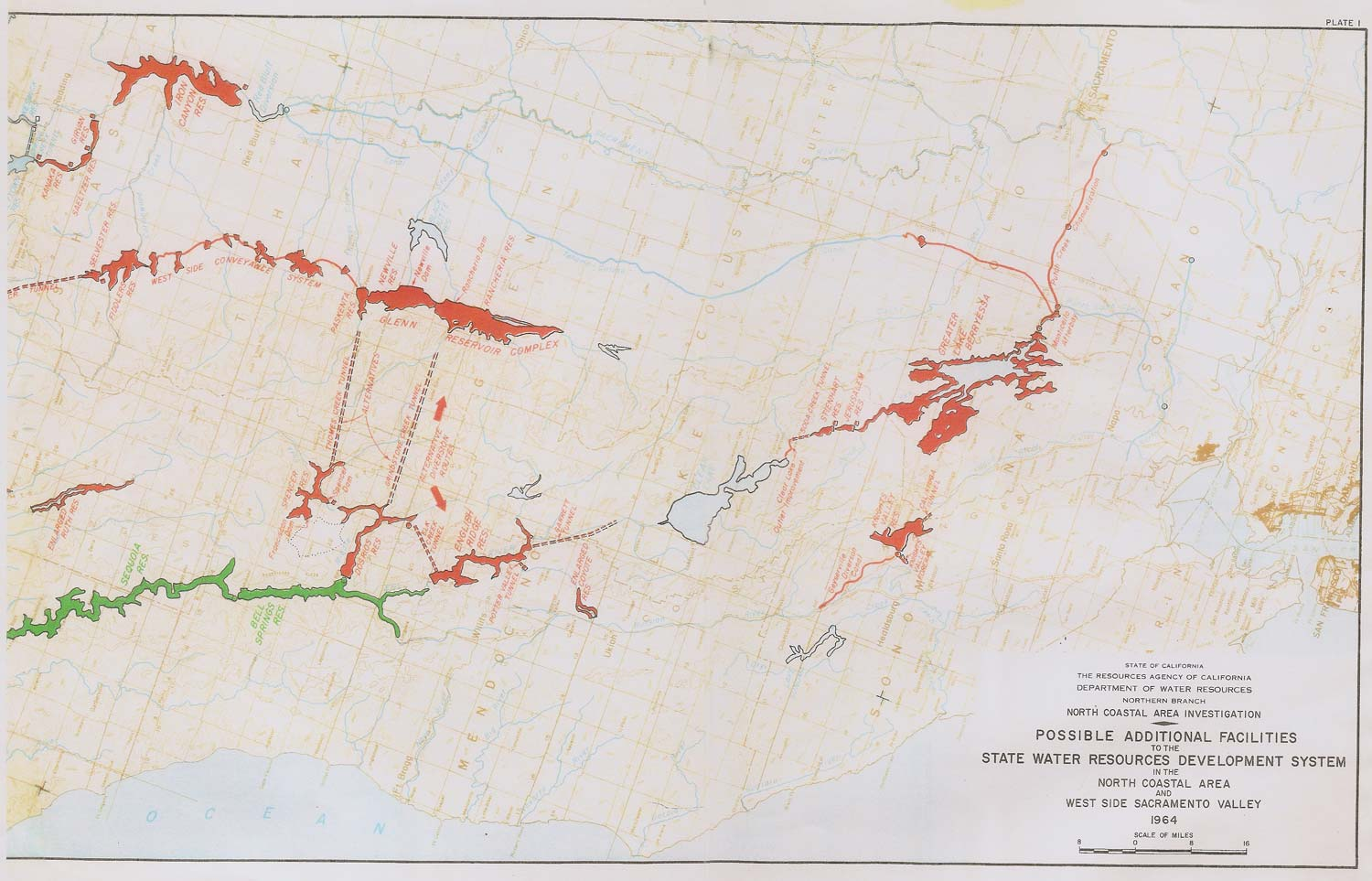 Map of some dams and diversions proposed on the Eel River as potential expansion for the California State Water Project. Photographic reproduction of original DWR document, which is public domain